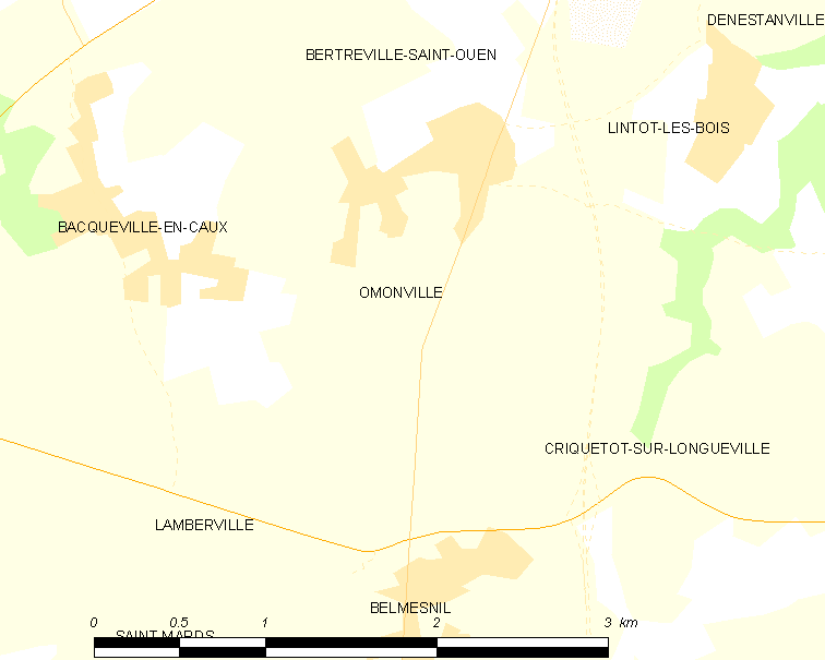 Map of French municipality Omonville